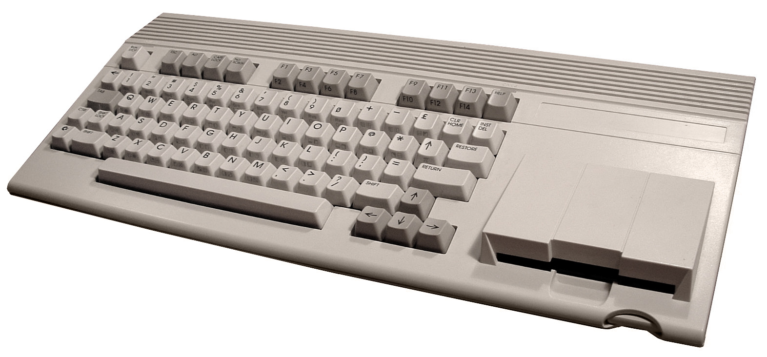 Commodore 65. (Image with background removed and other tweaks described below).